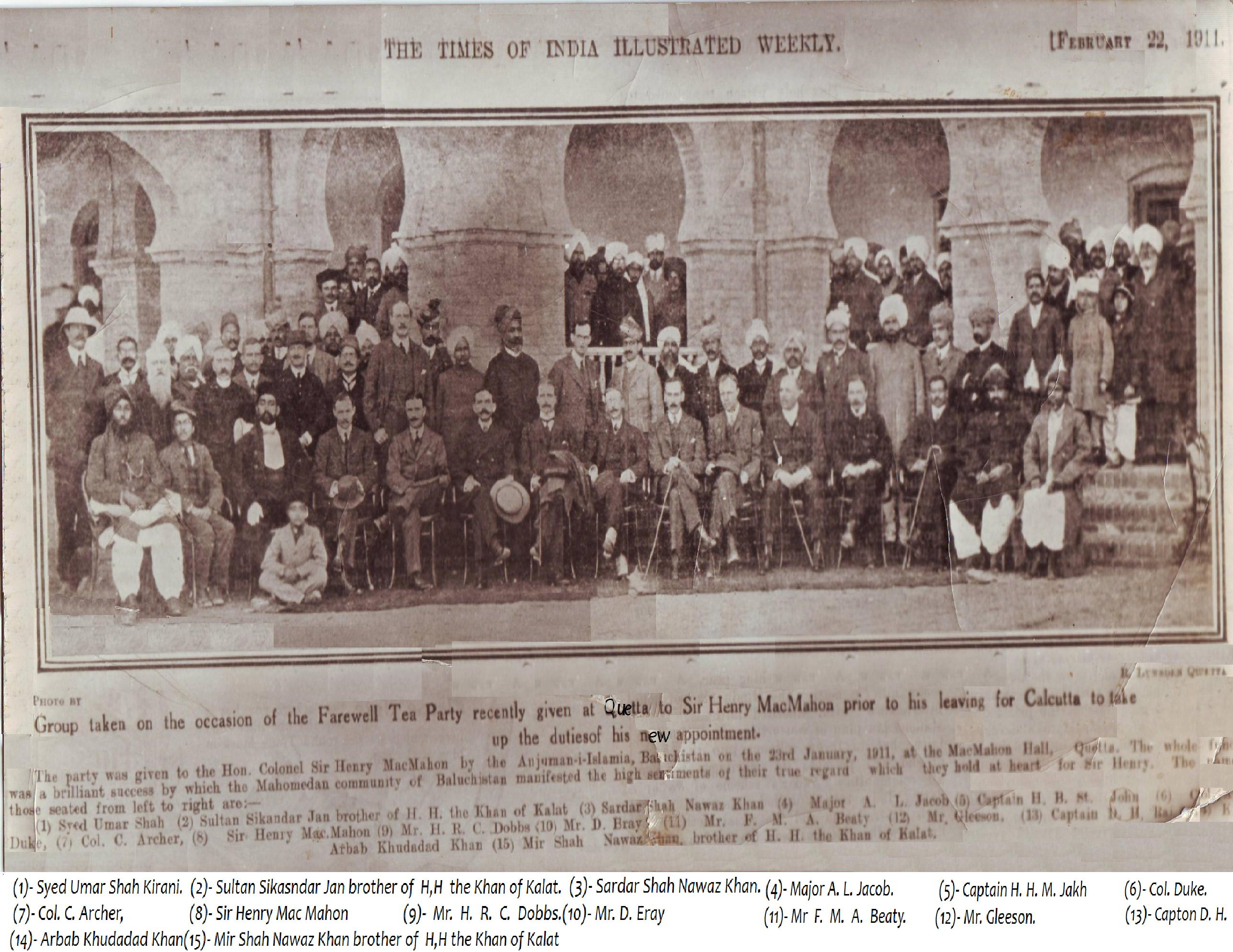 Group photo, taken at Quetta of Sir Henry MacMahon's Farewell Tea Party, published in The Times of India Illustrated Weekly